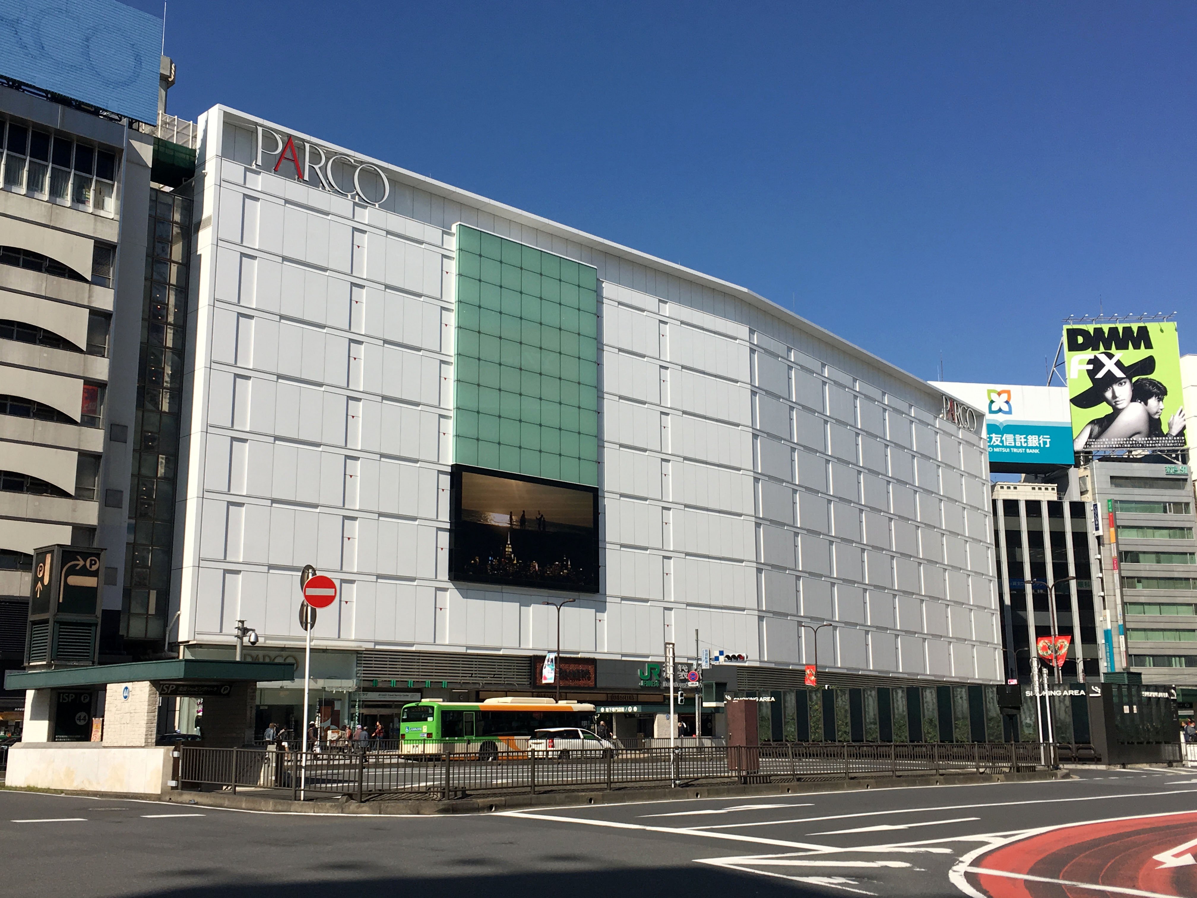 Ikebukuro PARCO (Department store in Japan)